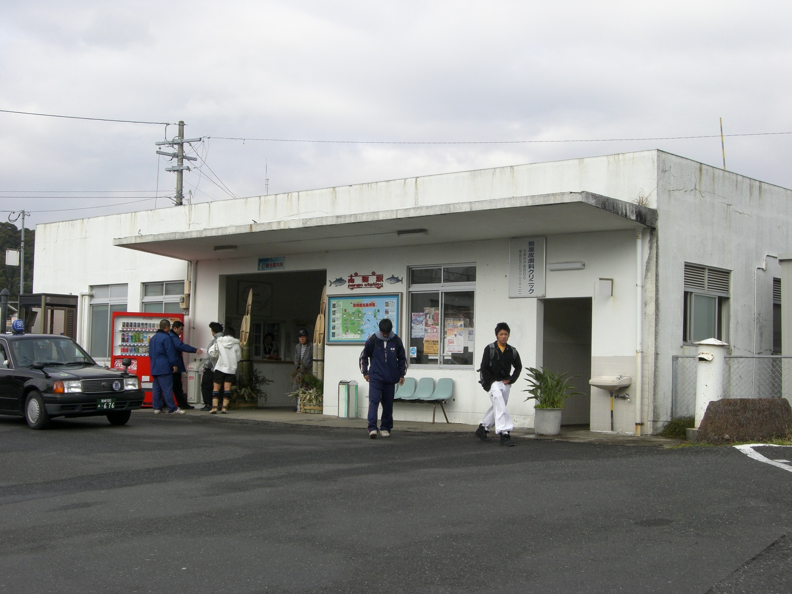 Nango Station building